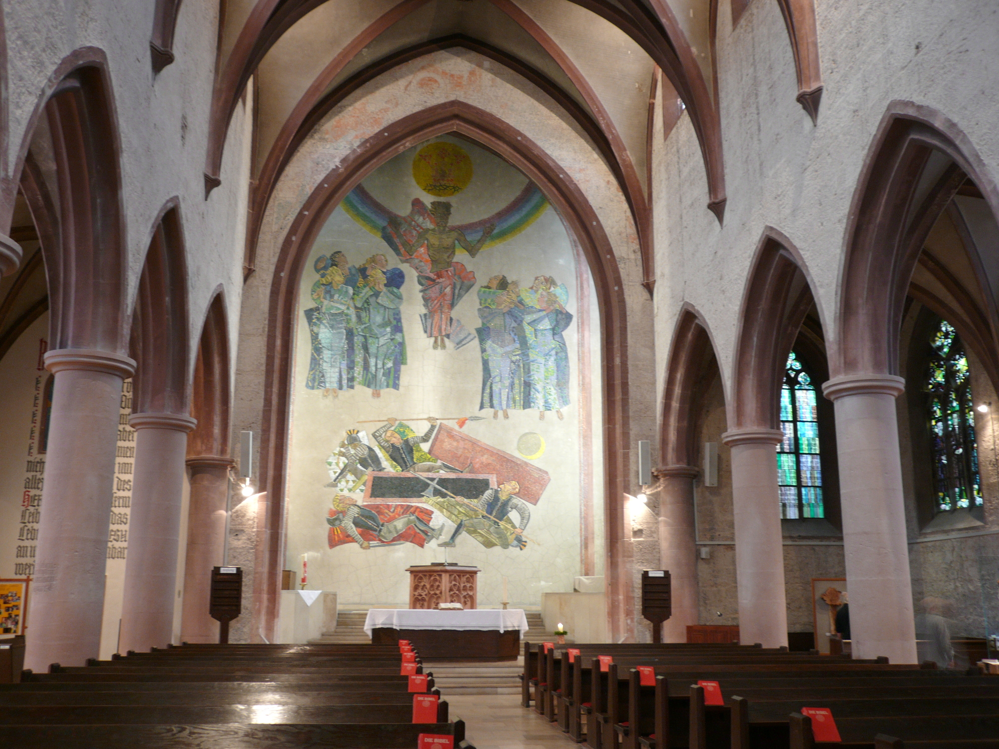 Protestant section of Stiftskirche at Neustadt/Weinstrasse